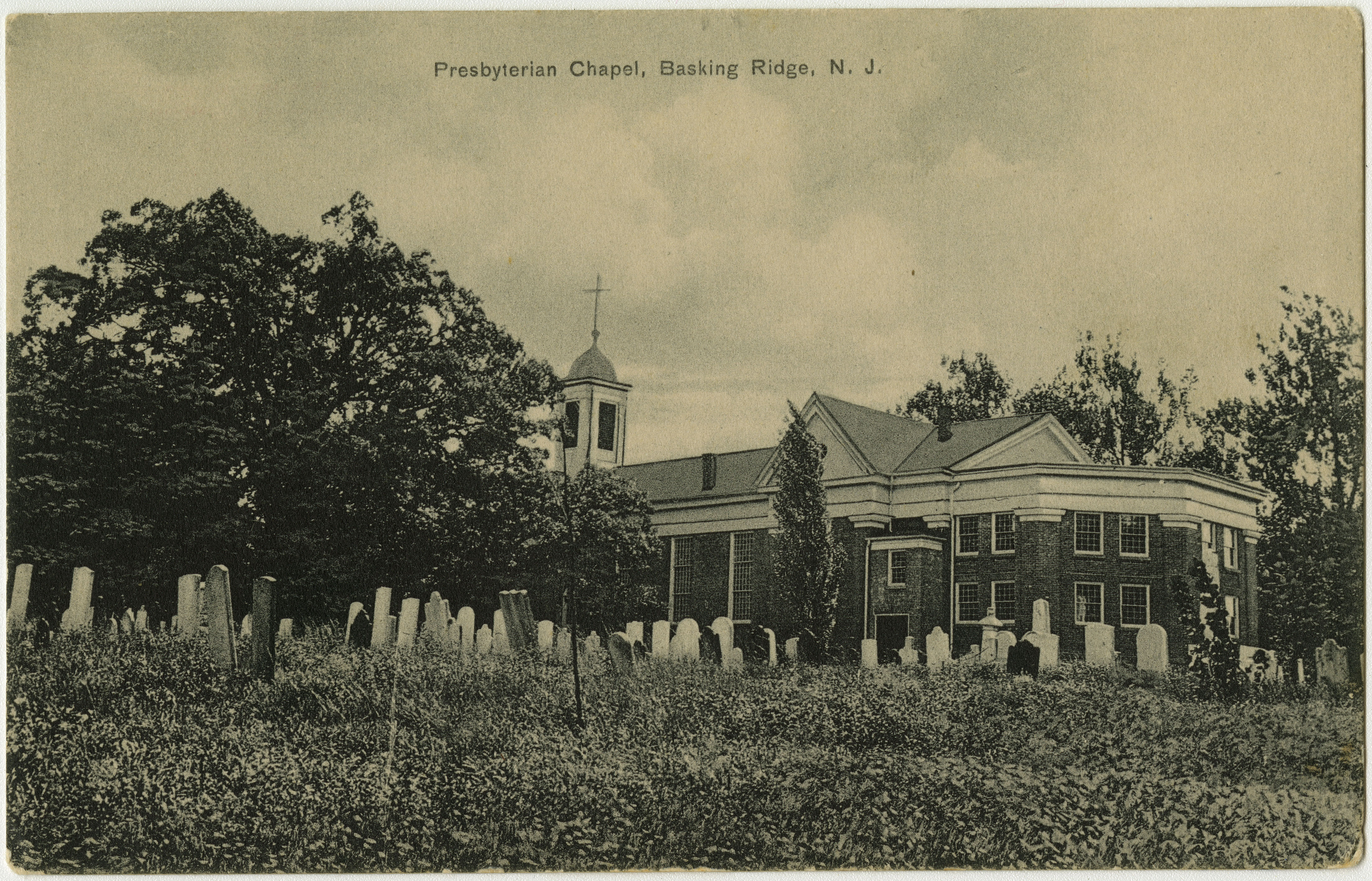 Presbyterian chapel in Basking Ridge, New Jersey from a pre-1923 postcard From RG 428, Postcard Collection, Presbyterian Historical Society, Philadelphia, Pennsylvania.